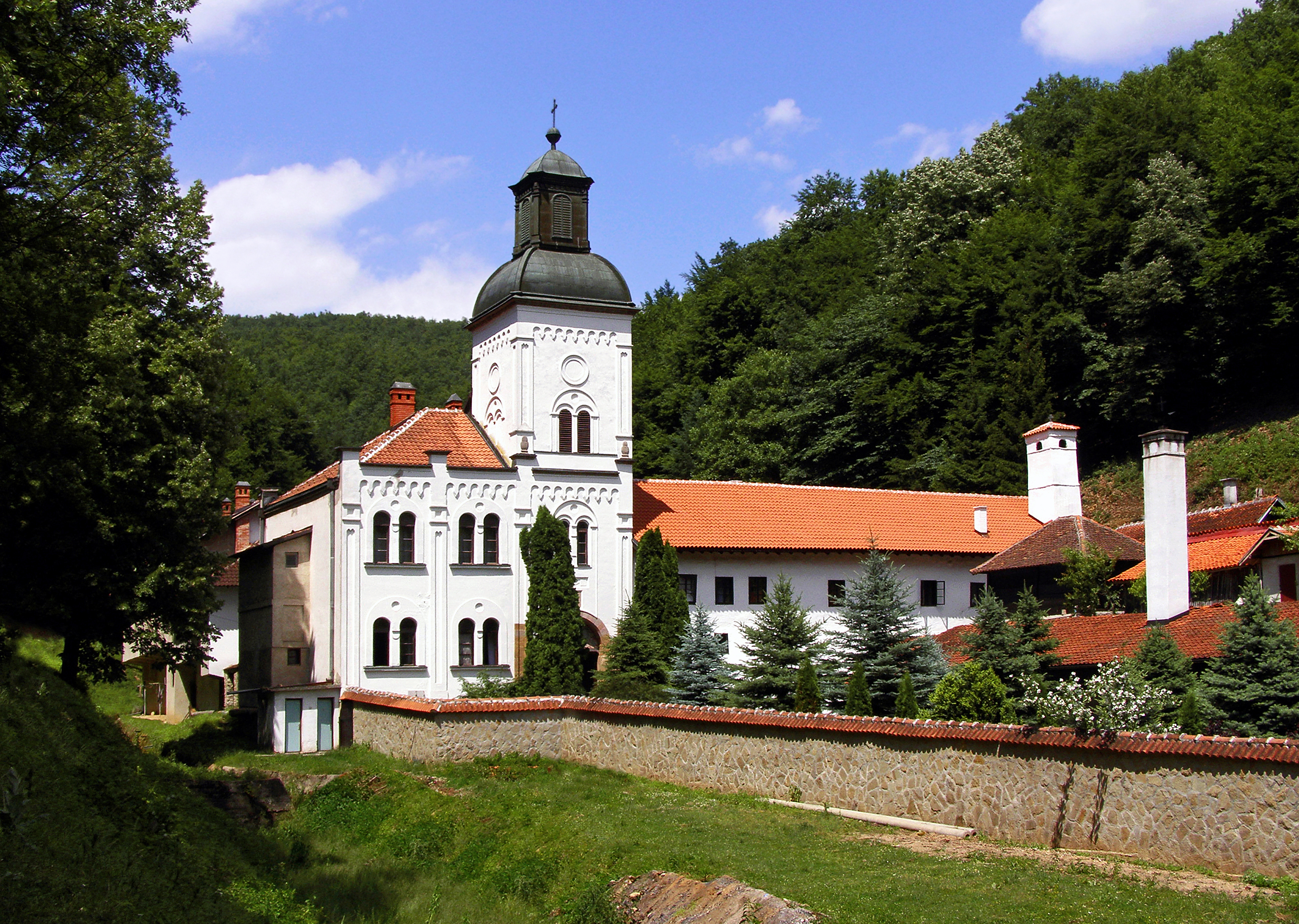 Vracevsnica monastery is a Serbian Orthodox monastery in Vracevsnica, Gornji Milanovac, Serbia, built in 1428-1429 on the orders of Radic (fl. 1389-1441), a magnate in the service of Stefan Lazarevic and Djuradj Brankovic. The church is dedicated to Saint George.